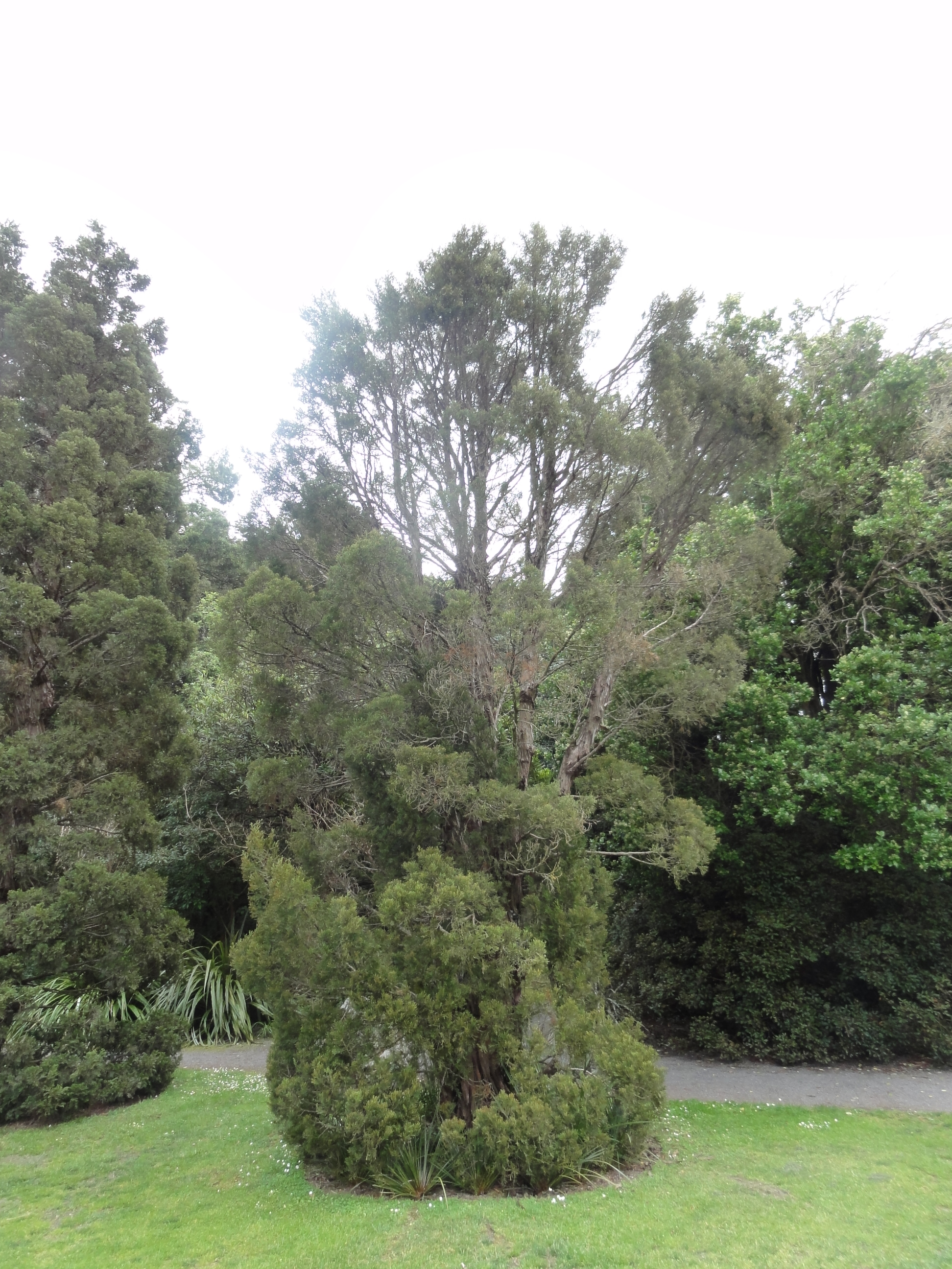 Libocedrus bidwillii